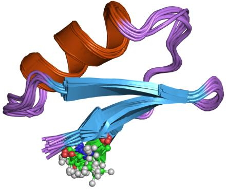 Cartoon representation of the molecular structure of protein registered with 2crd code.